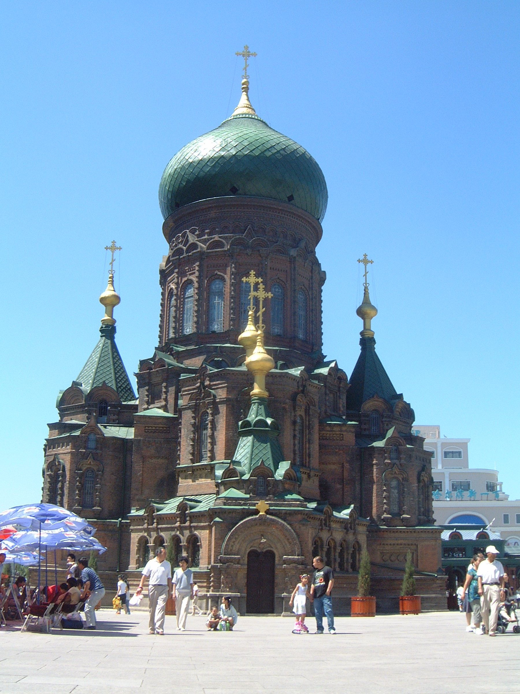 Sophia Church